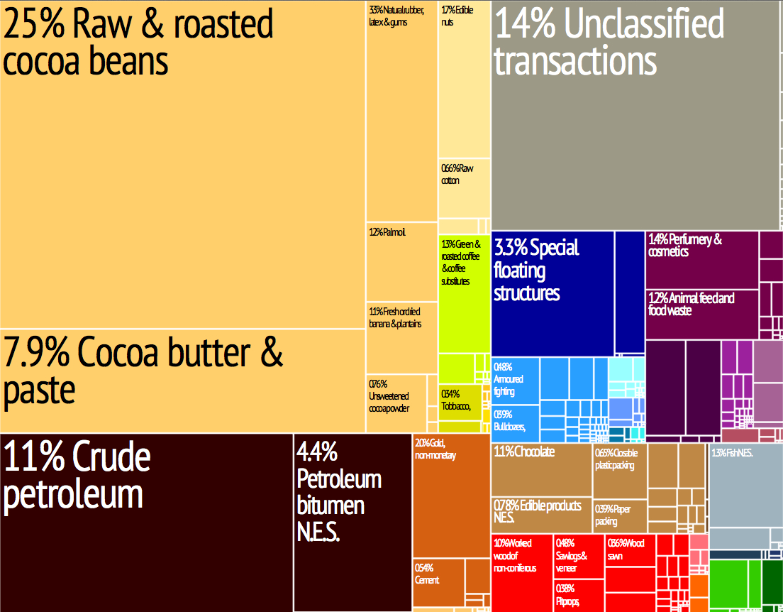 Export Trading Treemap for Cote d'Ivoire in 2009. From MIT/Harvard Atlas of Economic Complexity